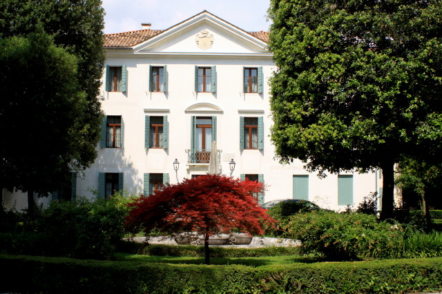 Fürstemberg Villa